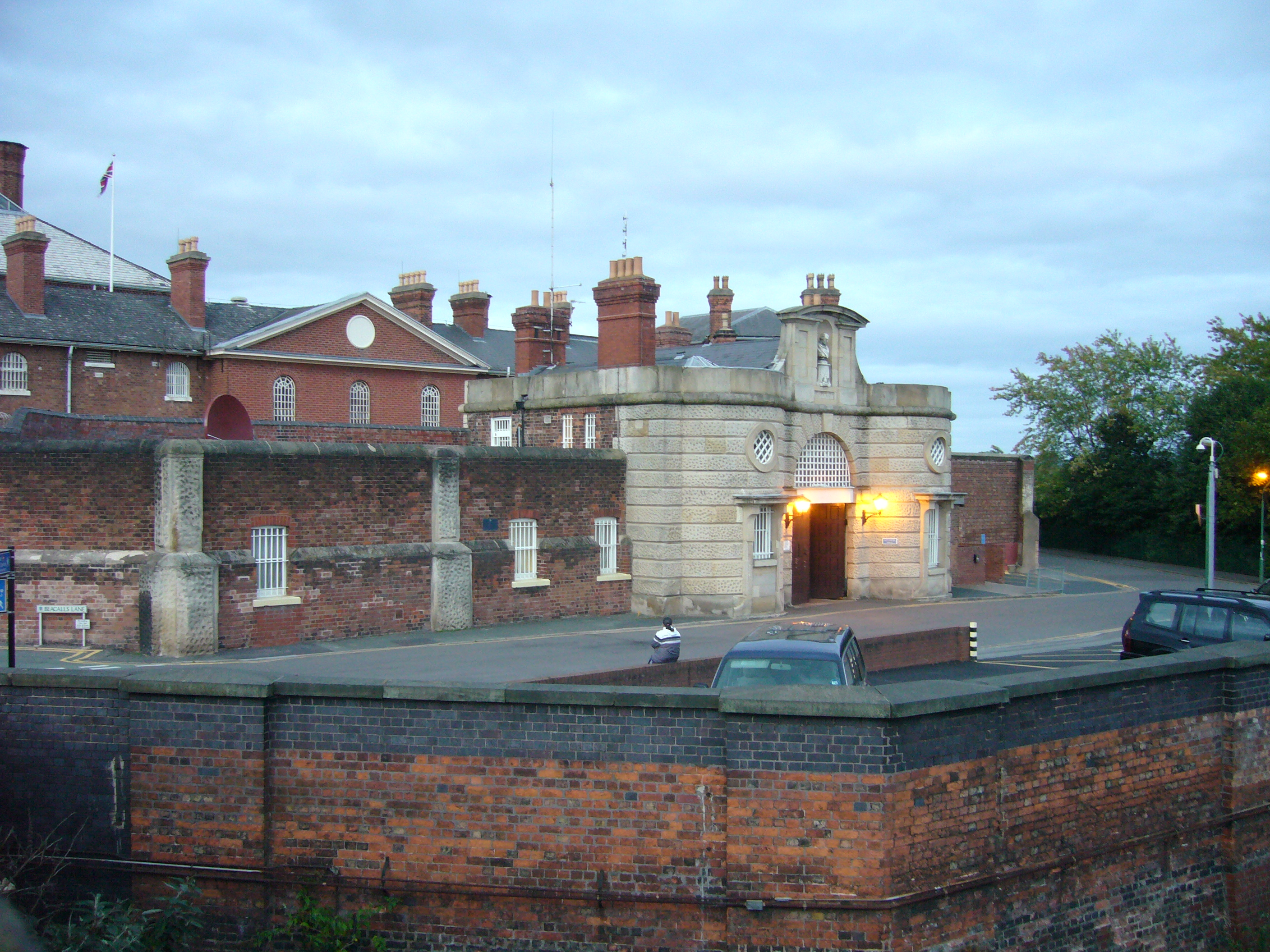 The main entrance to Shrewsbury Prison, viewed from the adjacent railway station bridge. A prison van had just entered the prison so the main gate was open. A few seconds later the gate closed.